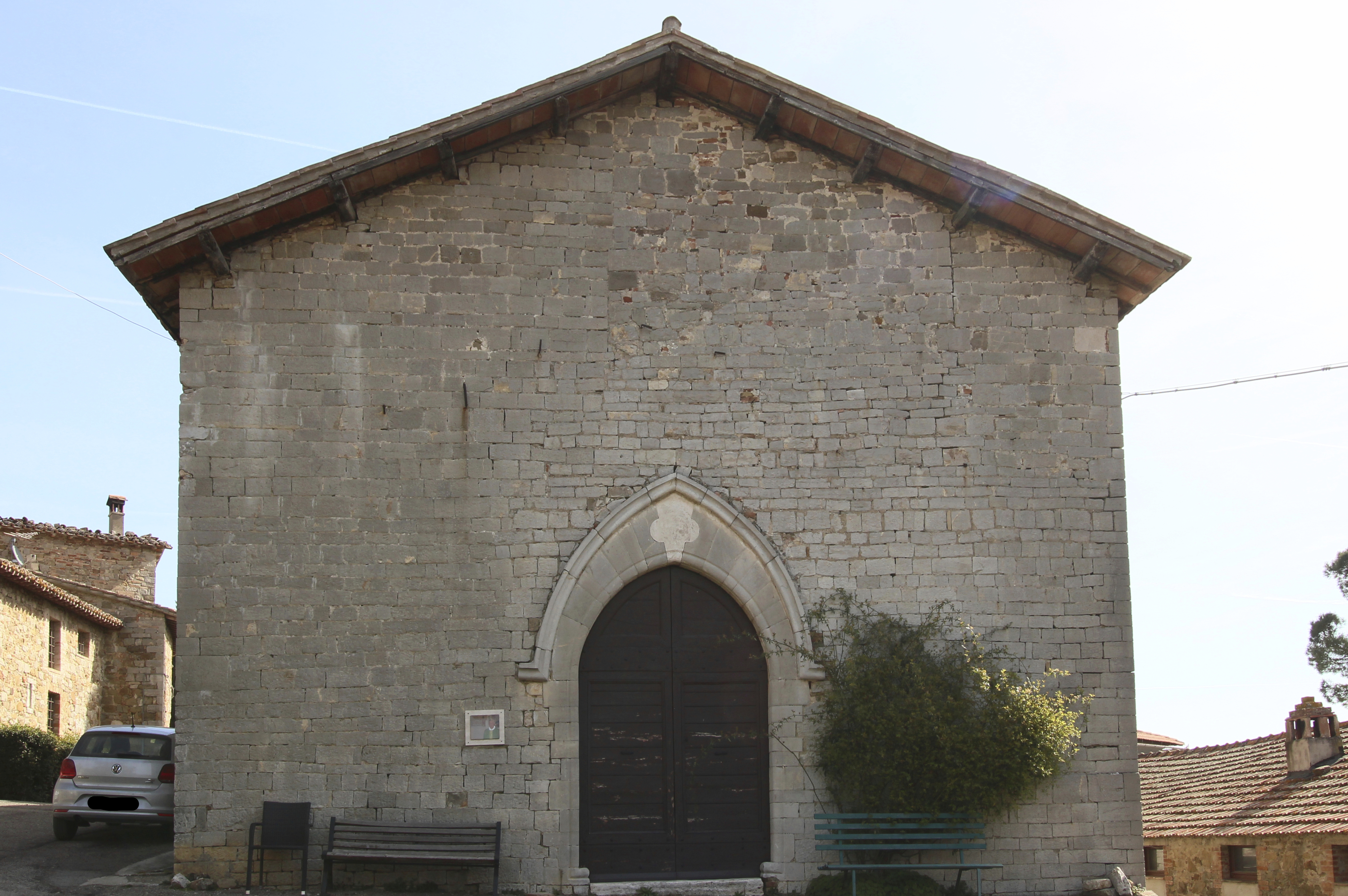 Church San Pietro, Monte Vibiano Vecchio, hamlet of Marsciano, Province of Perugia, Umbria, Italy